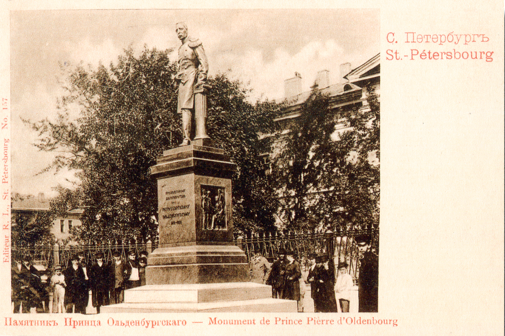 Monument to Duke Peter of Oldenburg in Saint Petersburg. Sculptor? Памятник принцу Ольденбургскому перед основанной им больницей